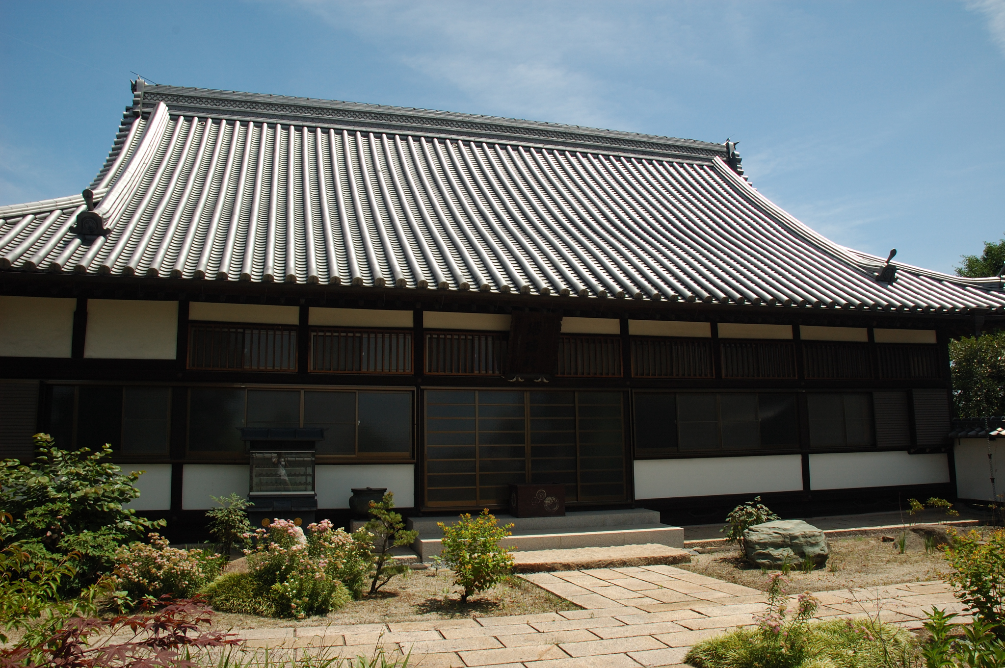 The main temple(Ruriden)